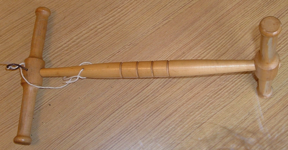 picture of a 2 yard niddy-noddy made by Clemes & Clemes, Inc. of Pinole, CA